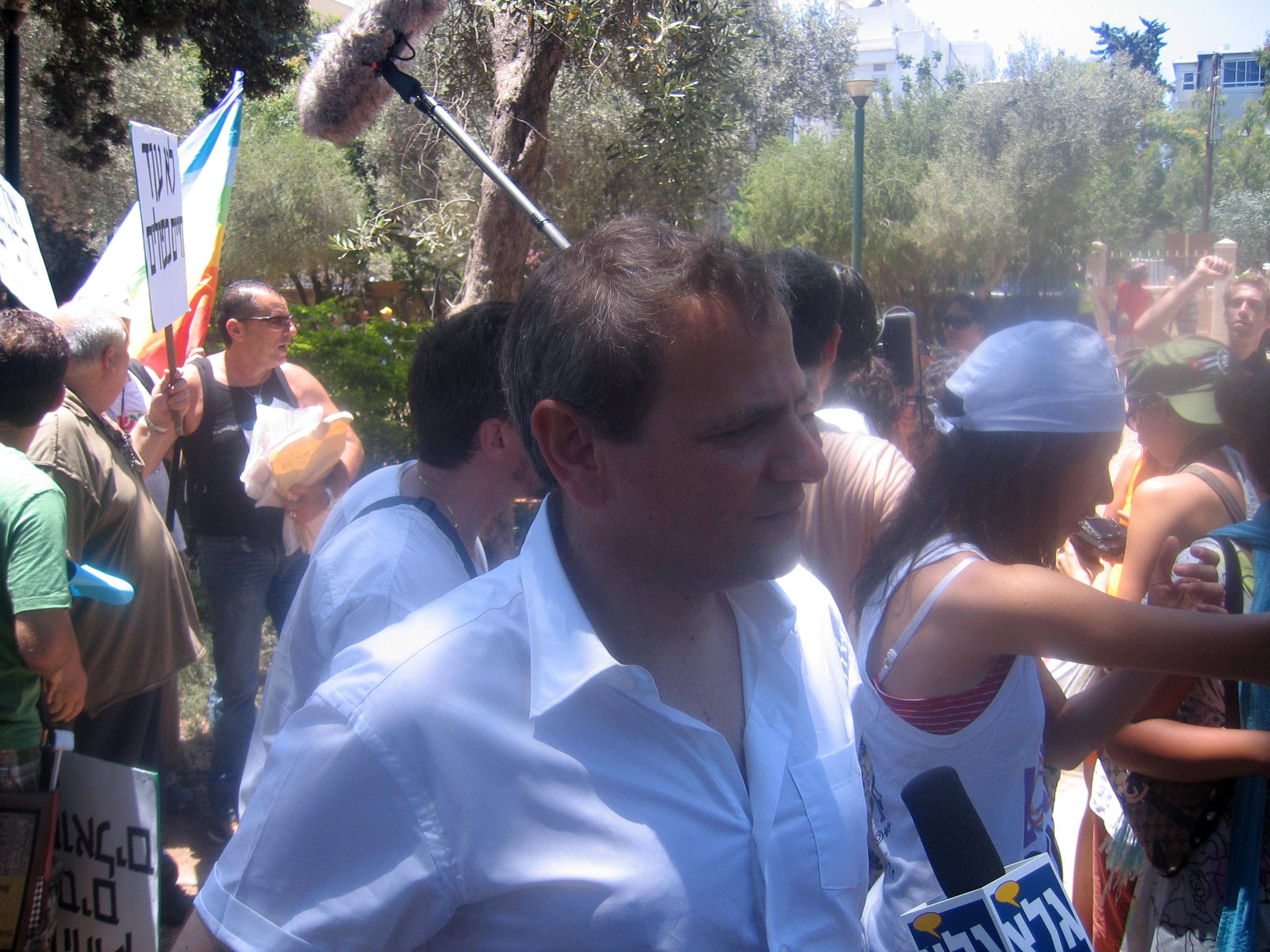 Nitzan Horowitz in the 2009 Tlv Gay pride.